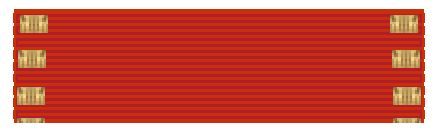 My own drawing of the ribbon of the Companions of Honour Robert Prummel